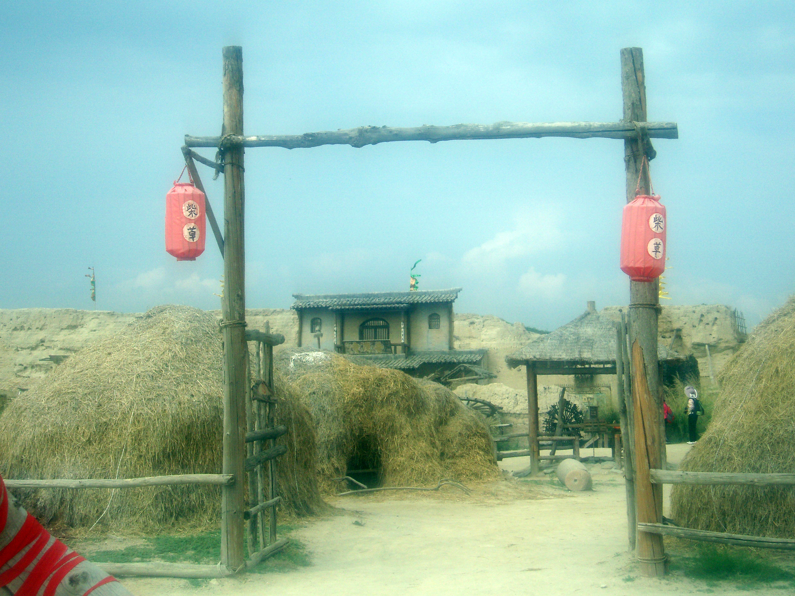 The Chinese West Movie Studio in suburb of Yinchuan, Ningxia, China